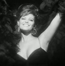 screenshot from the Italian film Il magnifico cornuto (1964)